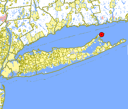 Map showing the location of Orient on Long Island.